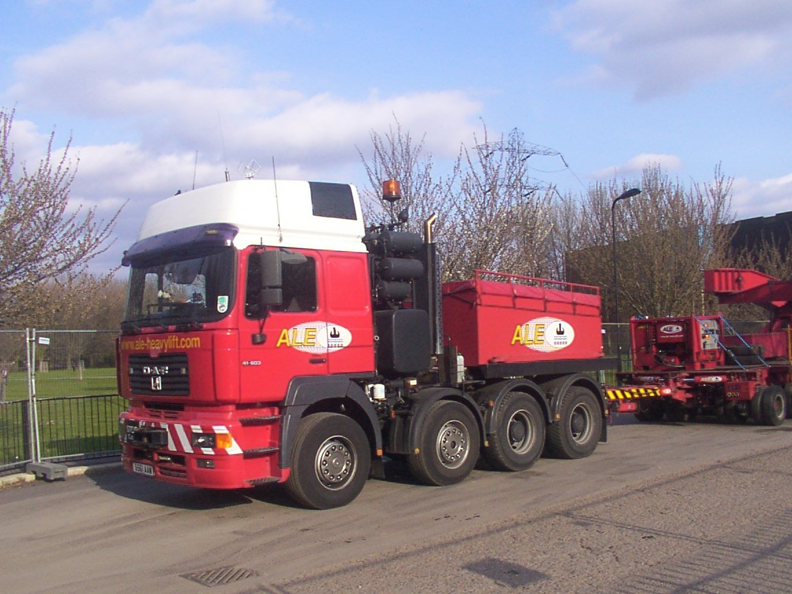 London: One of the smaller tractor units of the amazing Abnormal Load Engineering company or ALE for short, which has just helped deliver a 400 kV transformer to the Hackney Substation behind the trailer. The MAN badge seems to havebeen transformed (sic) into DAF. (but see below note by @drtime)